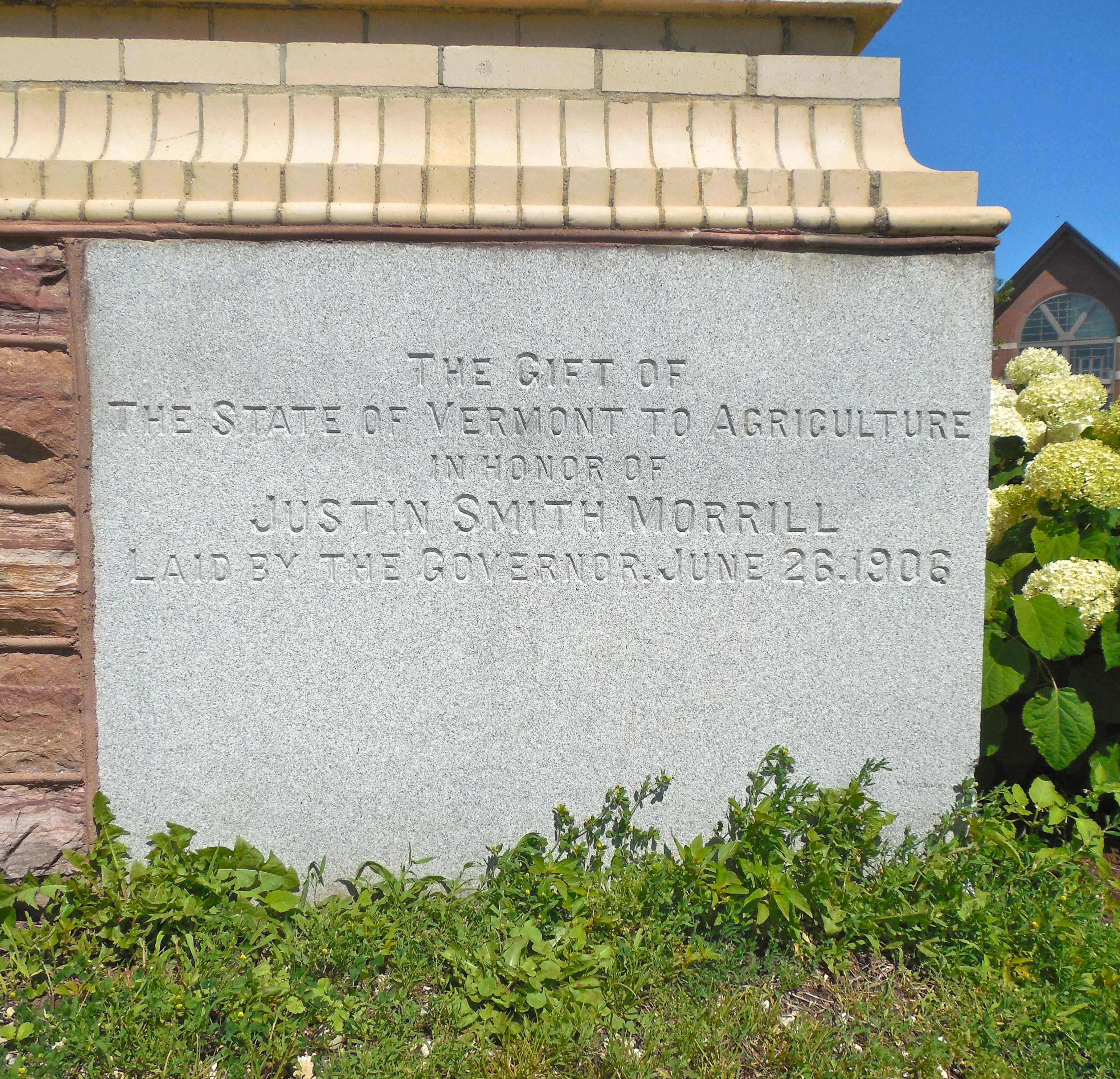 Corner stone on the southwestern corner of Morrill Hall at the University of Vermont campus (with Davis Center in the background), Burlington, VT: July 2015